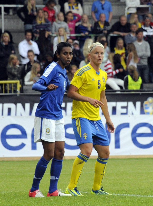 Brazilian footballer Bruna Benites (4) marking Sweden's Nilla Fischer (5)